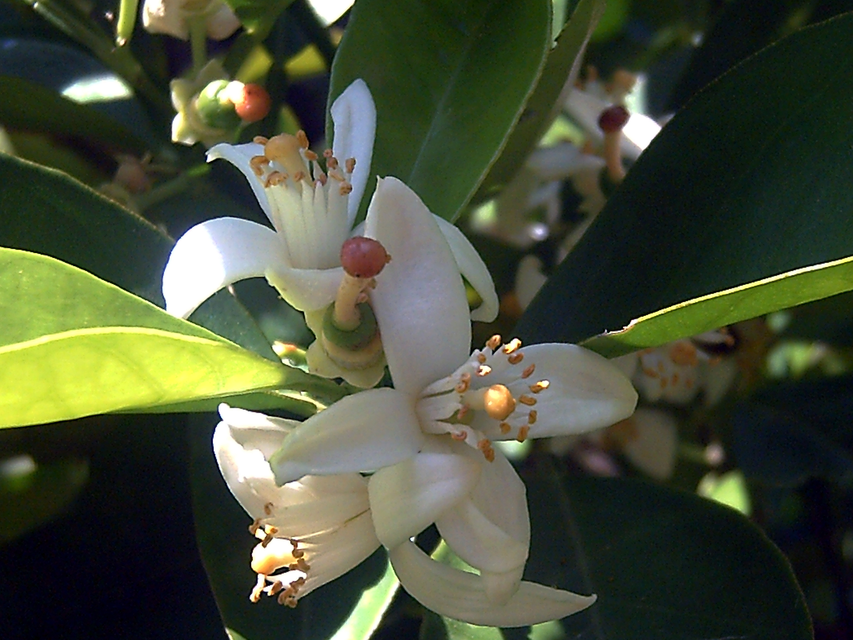 Citrus sinensis flowers closeup in Solana del Pino, Sierra Madrona, Spain